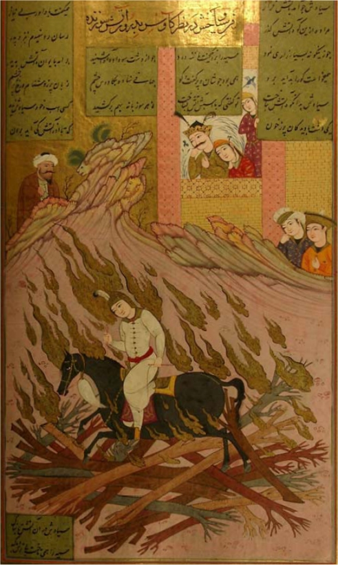 Riza-yi Musavvir, Illustration to Firdausi's Shahnama, Book 12: Siyavush enduring the fire ordeal, MS St. Petersburg, Dorn 333, f. 265v, dated 1651